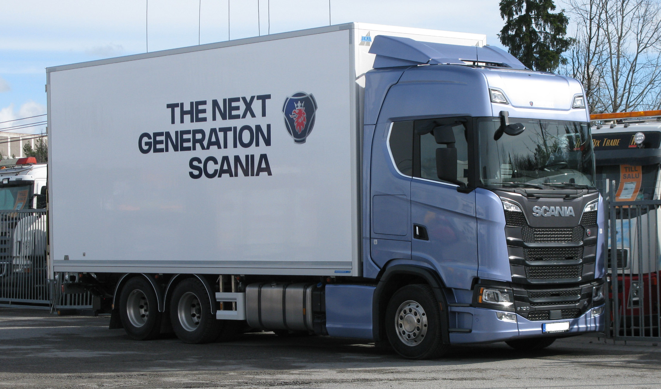 2017 Scania S730 6X2